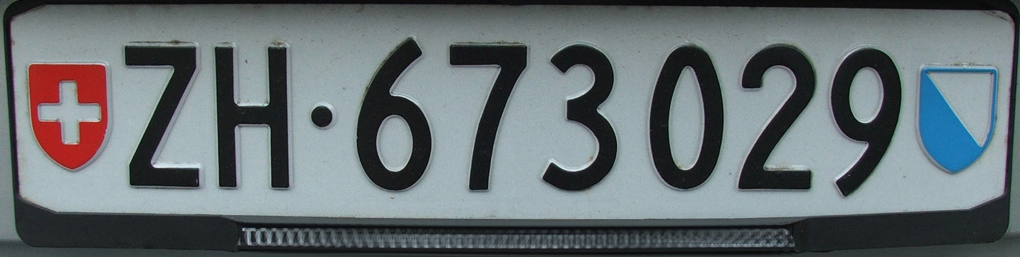 Vehicle licence plate from Switzerland as seen in 2007. "ZH" stands for Zurich canton.